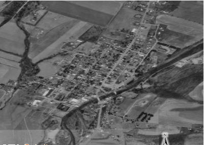 Bird's eye view of Benton, Columbia County, Pennsylvania.